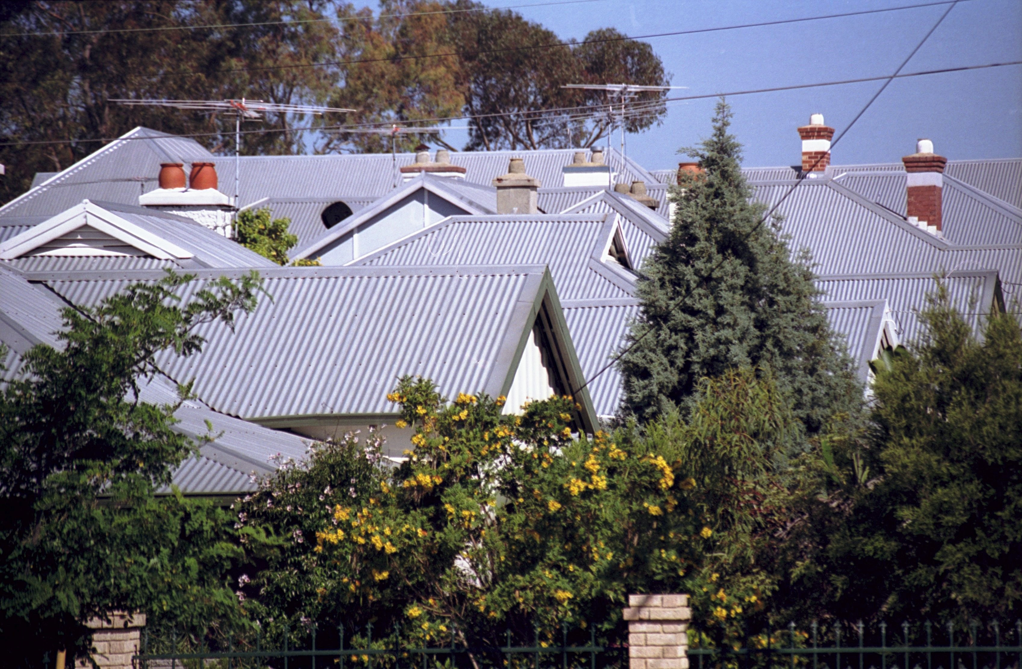 Mount Lawley rooftops (corrugated galvanised iron), Fourth Avenue, Mount Lawley, Western Australia.